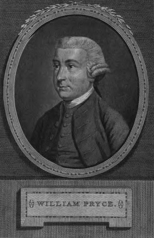 Portrait of William Pryce (1725?–1790), English antiquary.